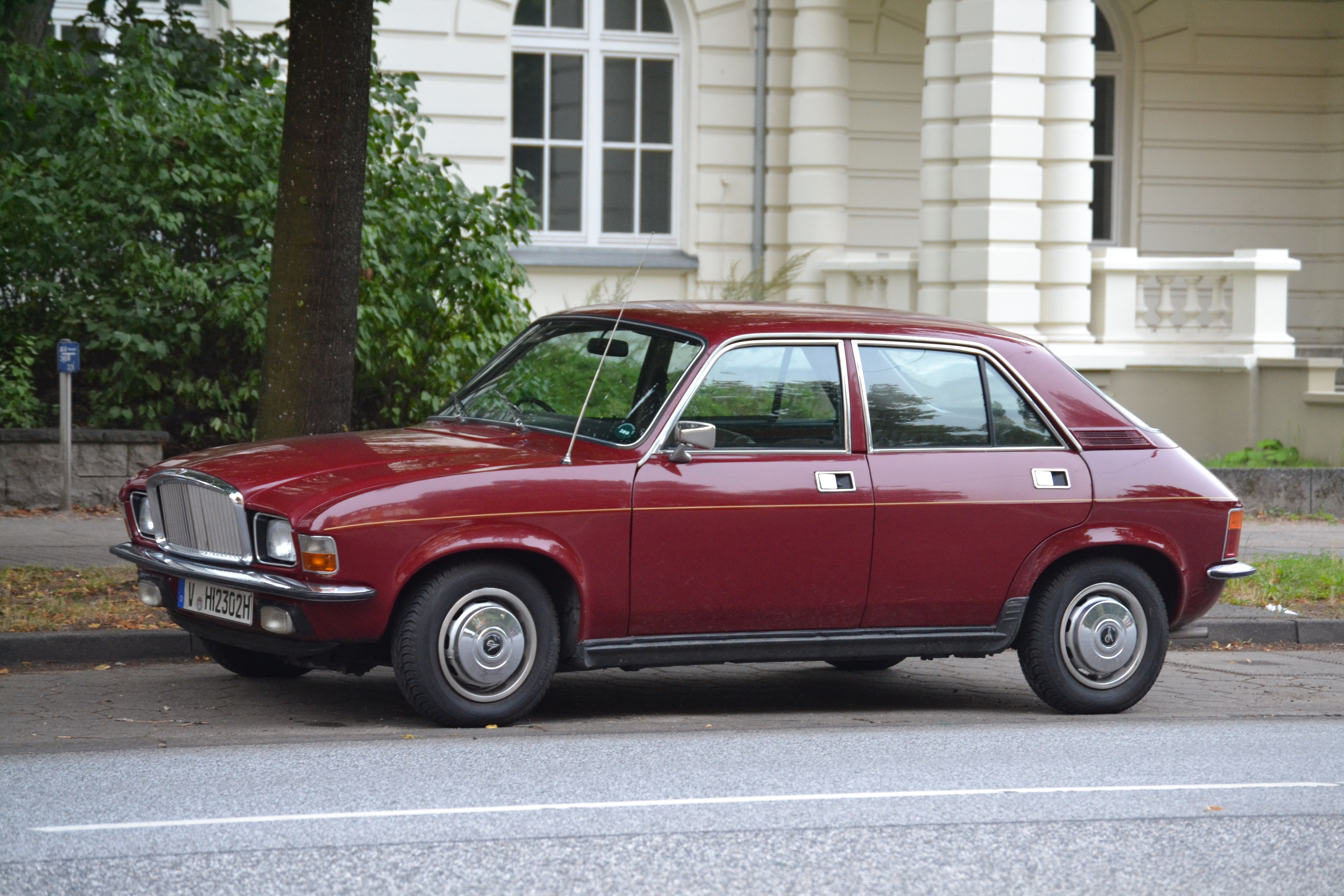 Vanden Plas 1500, License plate manipulated